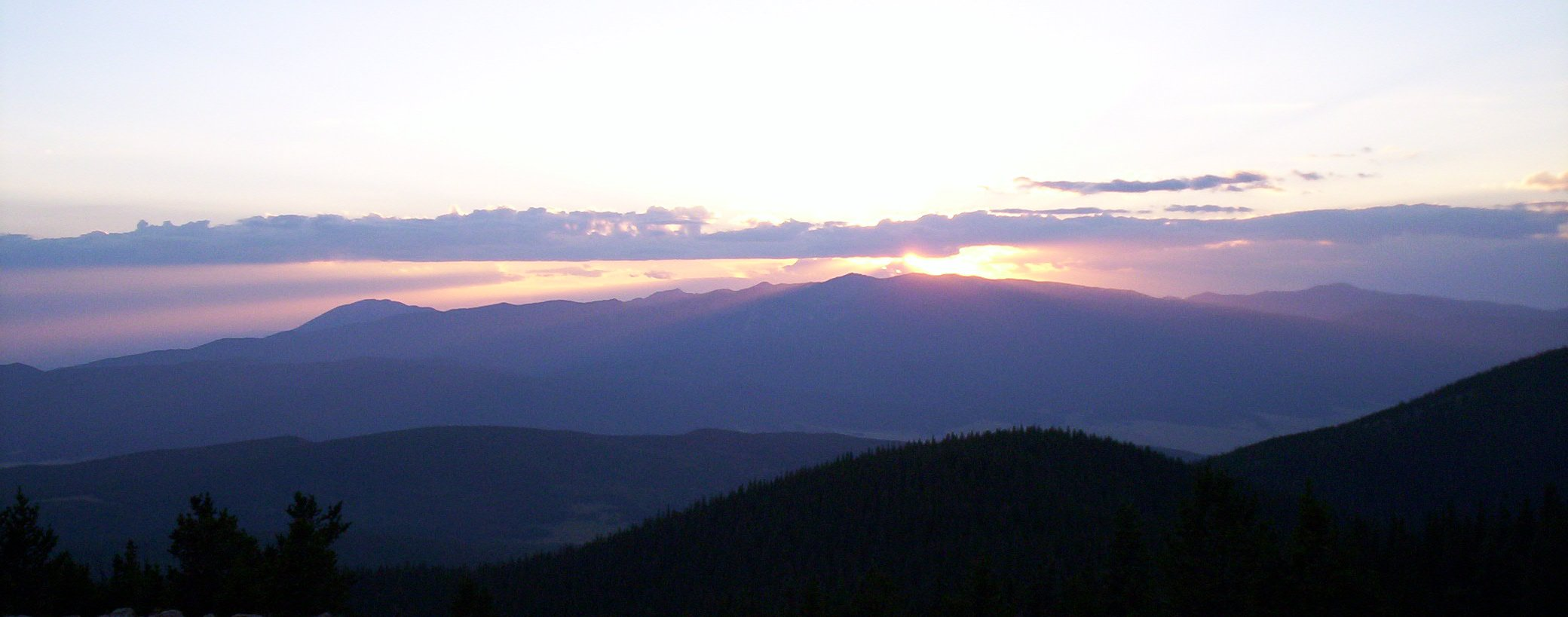 The sun sets over New Mexico's Wheeler Peak in the Sangre de Cristo Range of the Rocky Mountains.